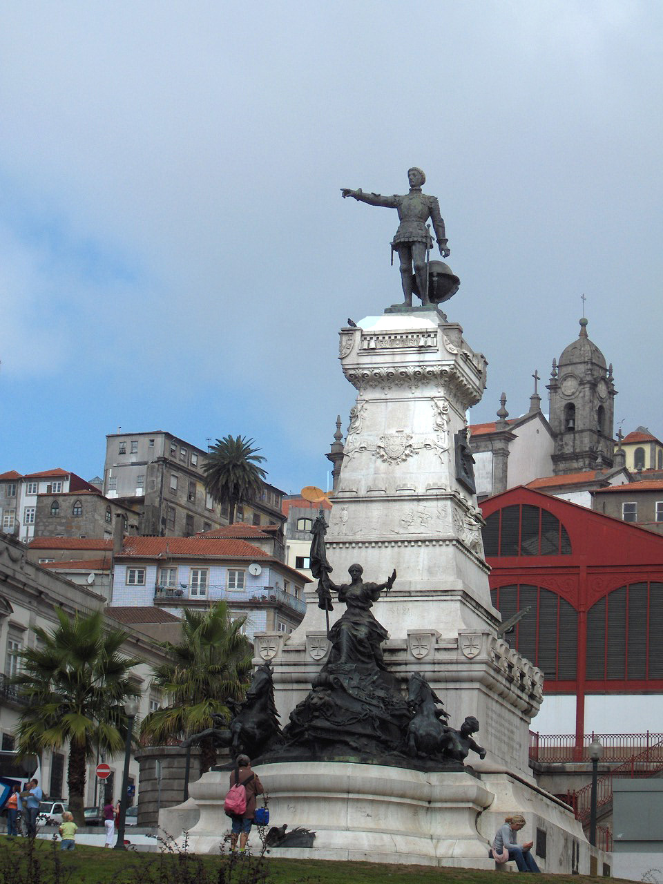 Statue of Henry the Navigator; Porto, Portugal